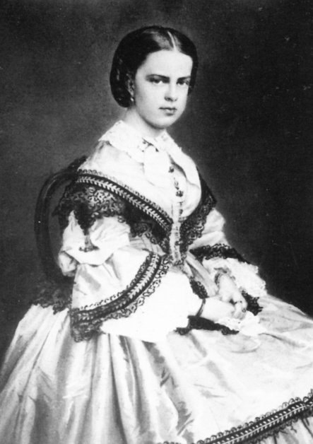 Princess Maria Clotilde of Savoy (future Princess Napoleon)